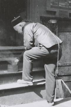 Close crop of Image:Elderly Chinese American Man with Queue.jpg for use in the wikipedia Queue (hairstyle) article